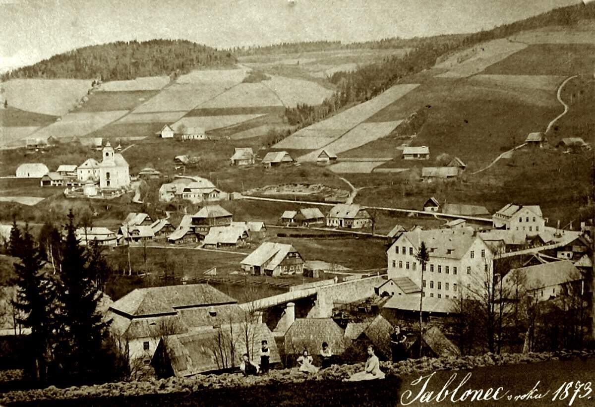 View from "Dolní tříče"